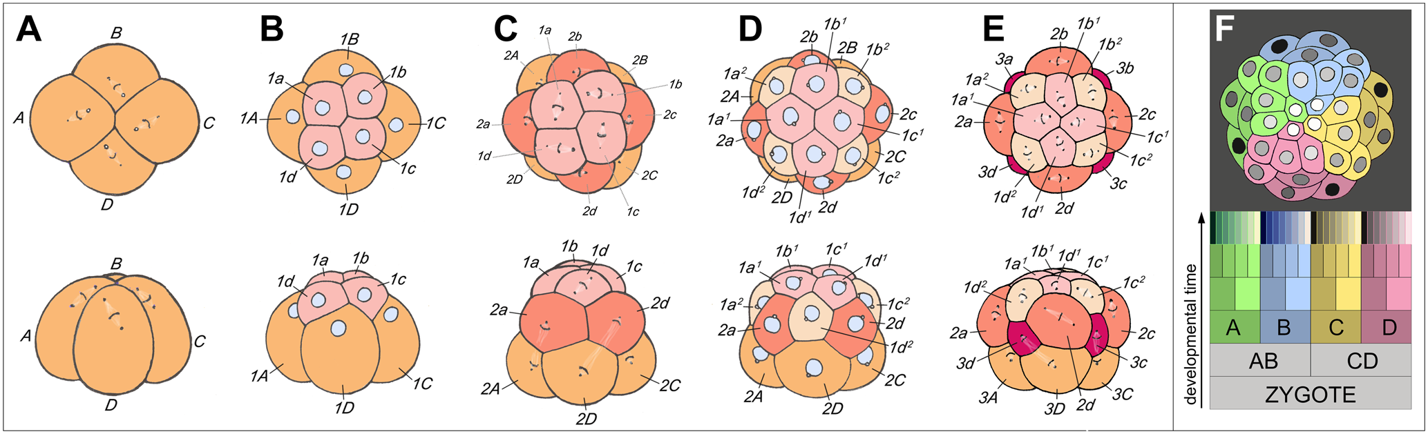 spiral cleavage in gastropod Trochus